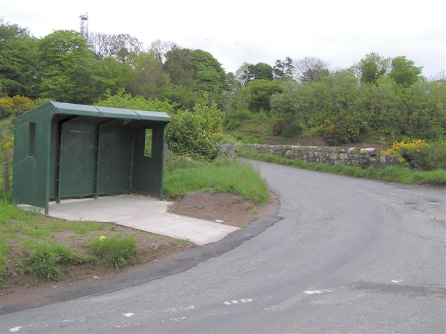 Bus shelter at Cavankeeran, Pomeroy. The old stone built bridge still spans the redundant railway track go the Great Northern Railway (Ireland).